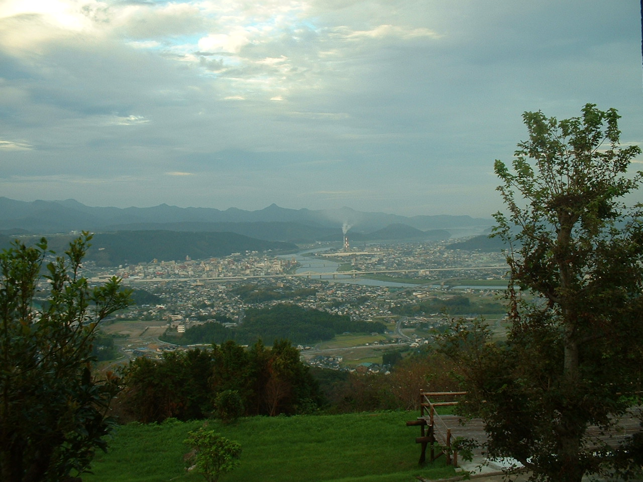 Made by myself